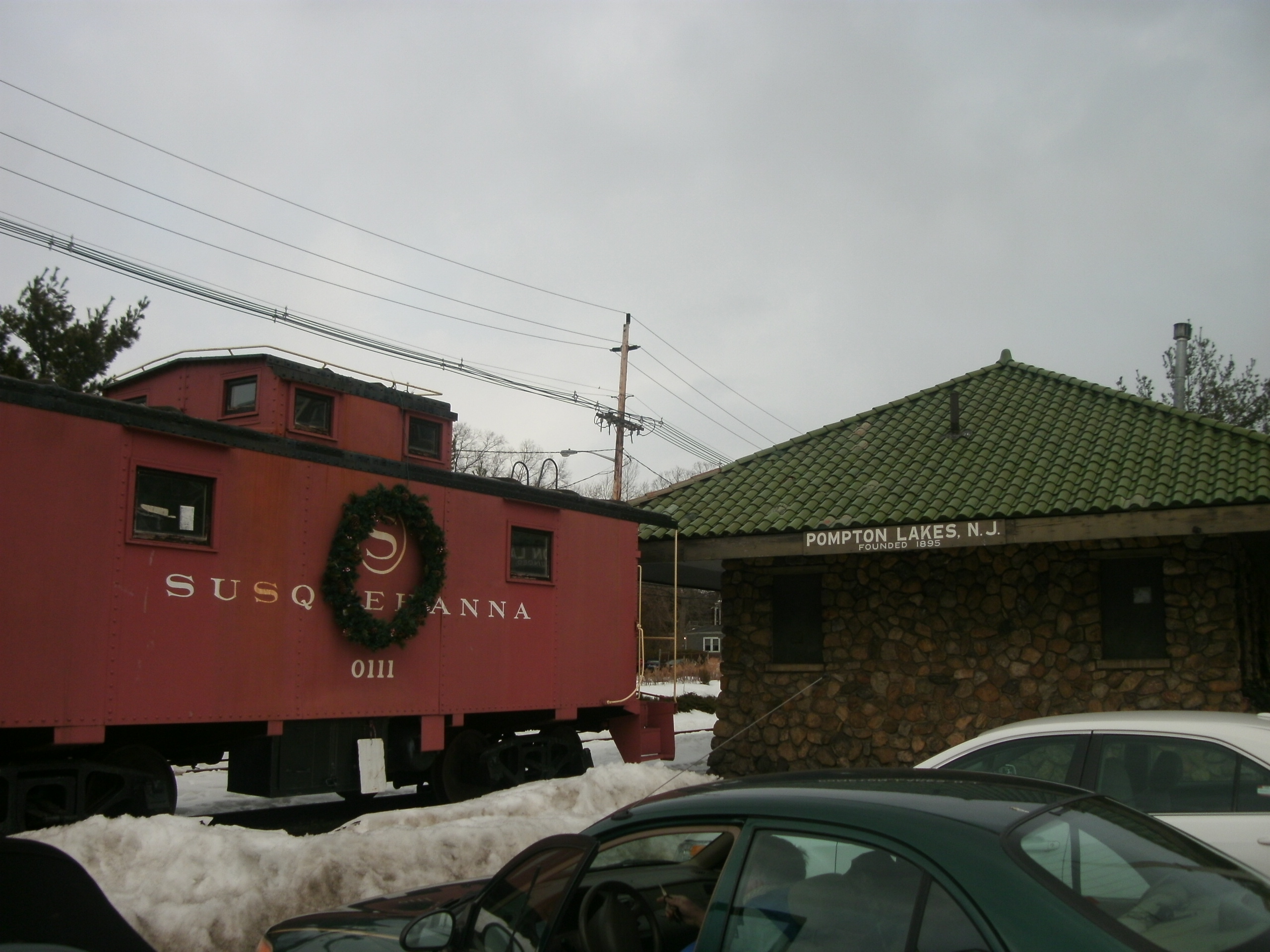 The New York, Susquehanna and Western station at Pompton Lakes, New Jersey. There is a caboose from the old Susquehanna on abandoned tracks sitting next to the 1904 station.